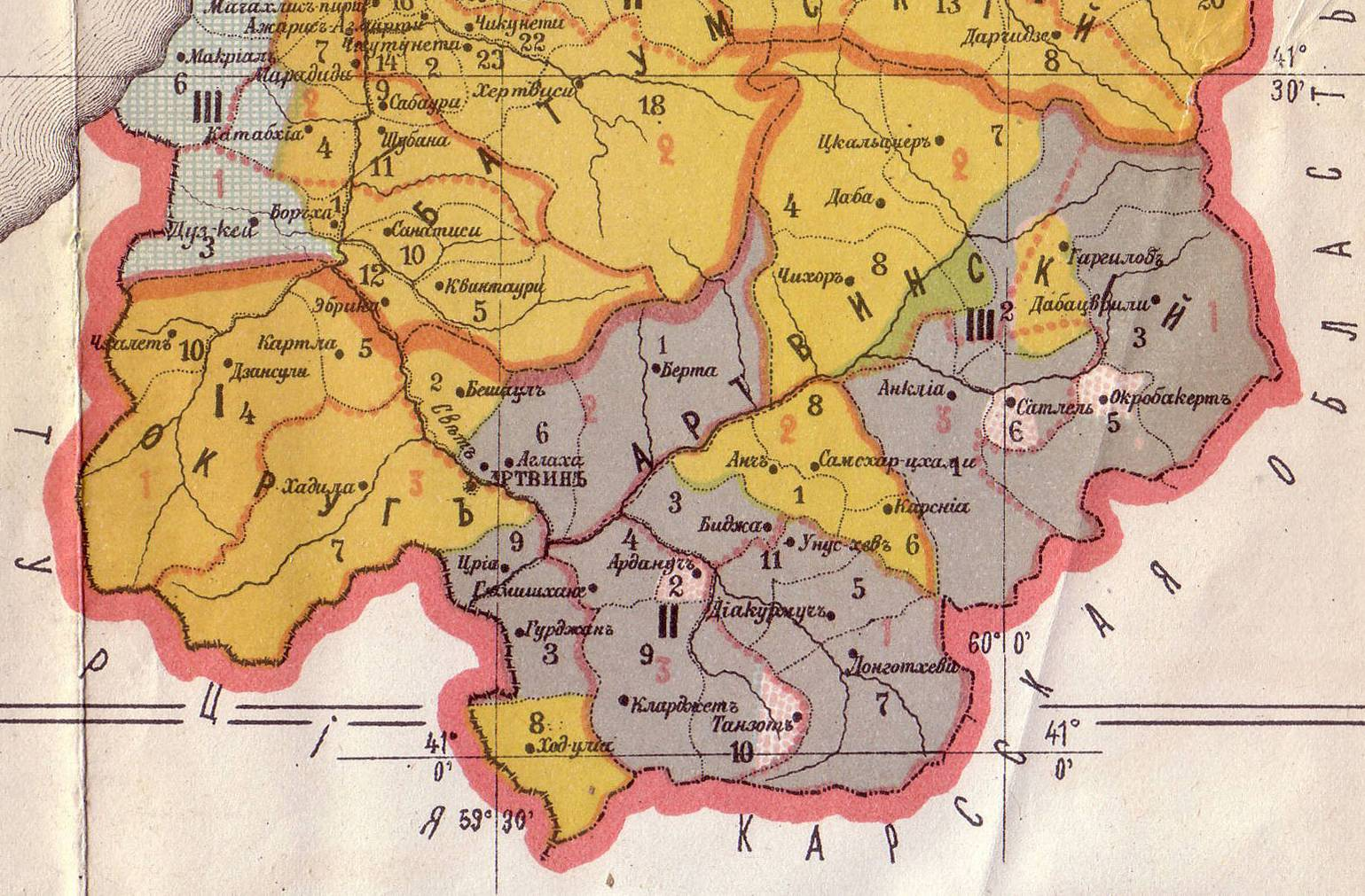 Ethnographic map of the Kutais Governorate